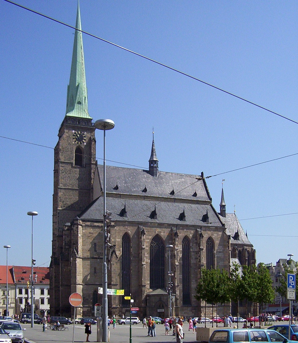 This is the saint Bartholomeus Cathedral in Pilsen, Czech Republic, Europe.